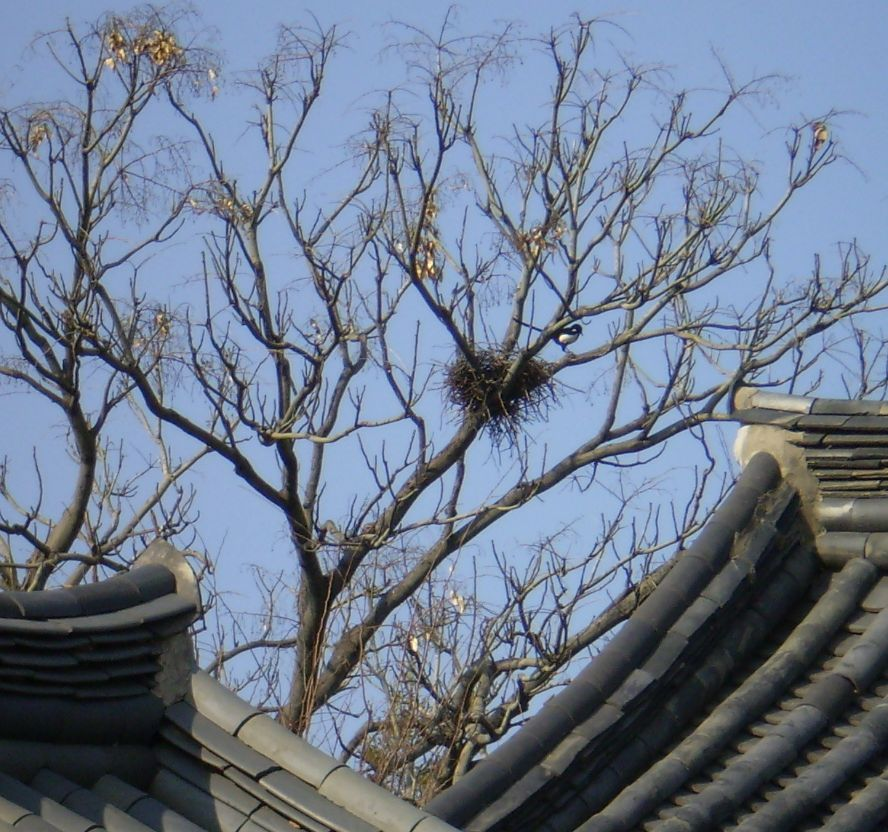 Oriental Magpie Pica serica, building a nest at the Daegu hyanggyo in Daegu, South Korea. The roof to the left is the Seojae dormitory; to the right is the Myeongnundang lecture hall.